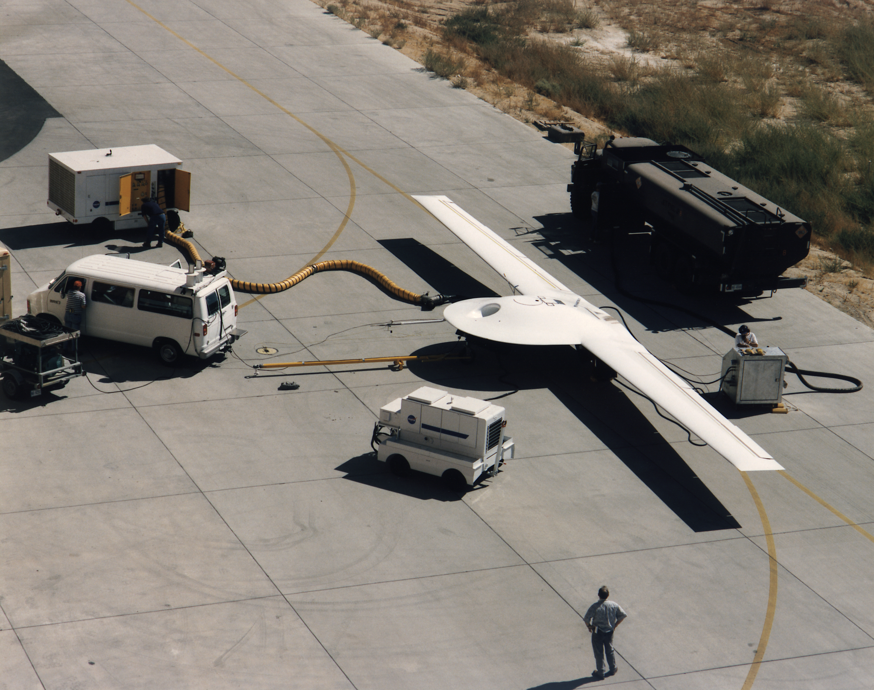 Tier 3- DarkStar engine run on ramp.